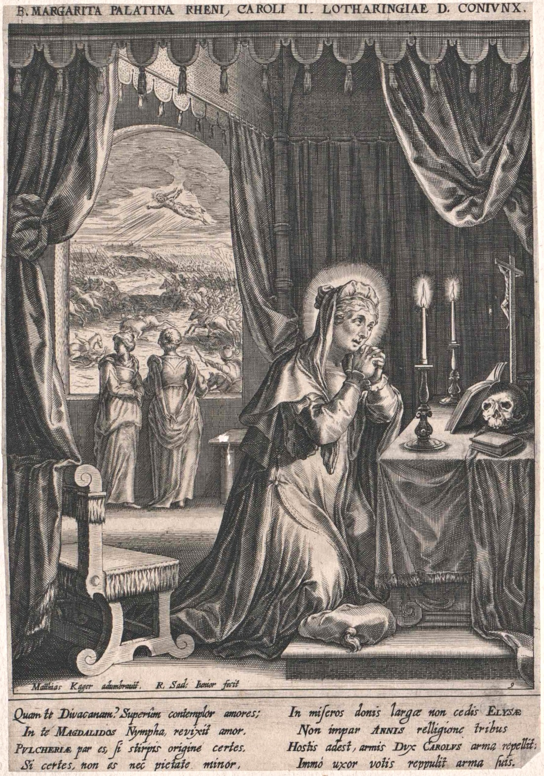 Margarete von der Pfalz, Herzogin von Lothringen (1376-1434)